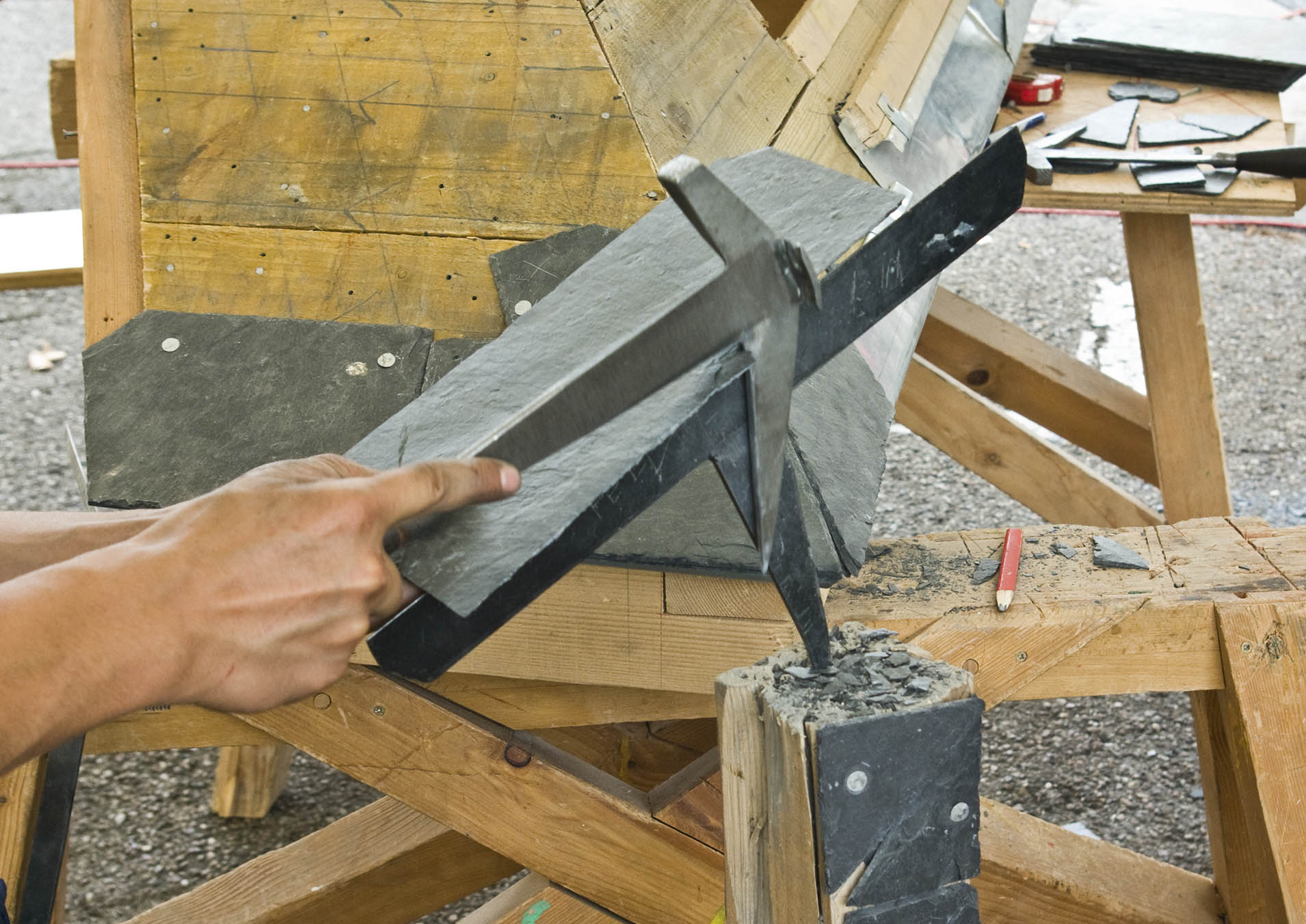 A Slate worker cut a Slate La taille d'une ardoise avec le marteau d'ardoisier sur une enclume d'ardoisier